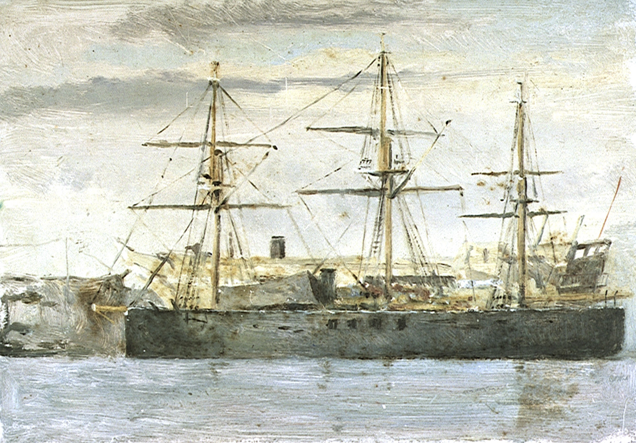 Central battery ironclad at anchor, ca.1860 Drawing